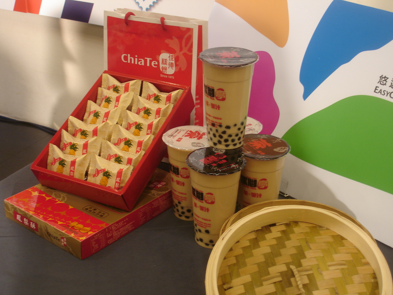 Pearl milk tea, pineapple cakes, and steamed dumplings chosen to represent Taiwan by the R.O.C. Centenary Foundation.